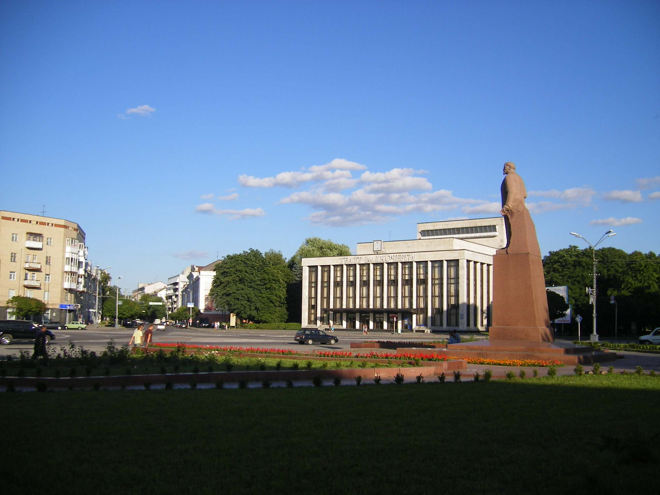 Zhytomyr, Sobornyy Maydan, Lenin memorial (destroyed 21.2.2014)